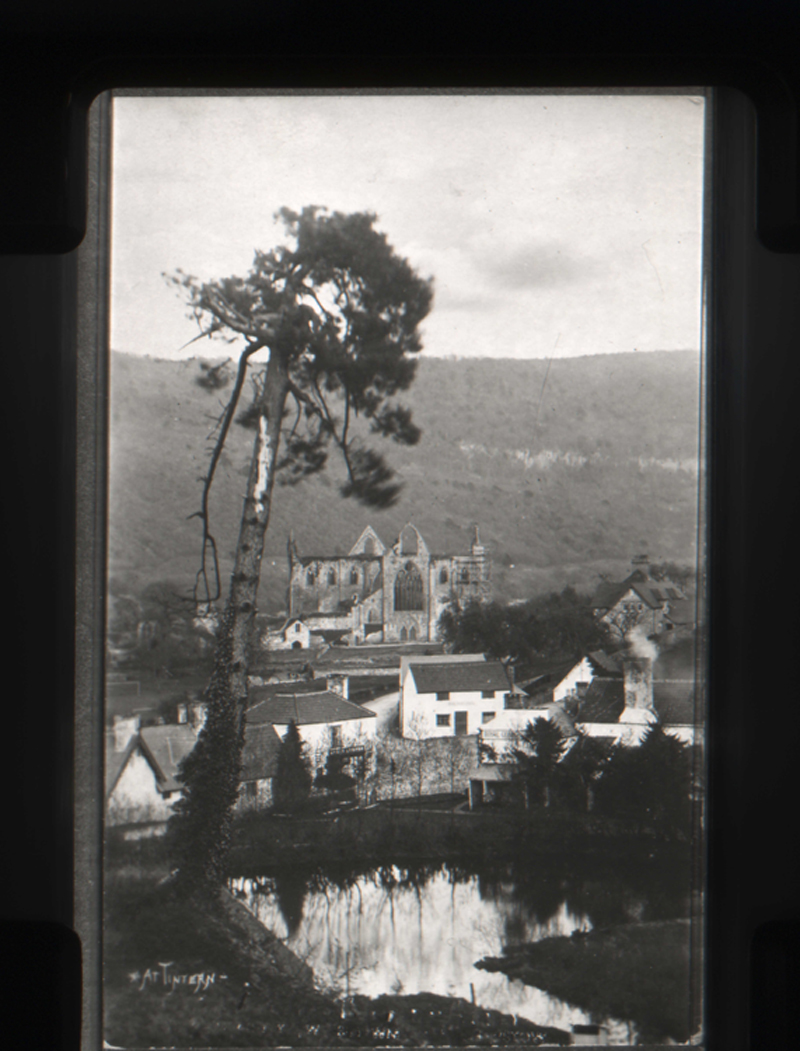 Tintern Village c. 1914 showing pool and Royal George by W.A. Call. Monmouth Museum identity number: M1226